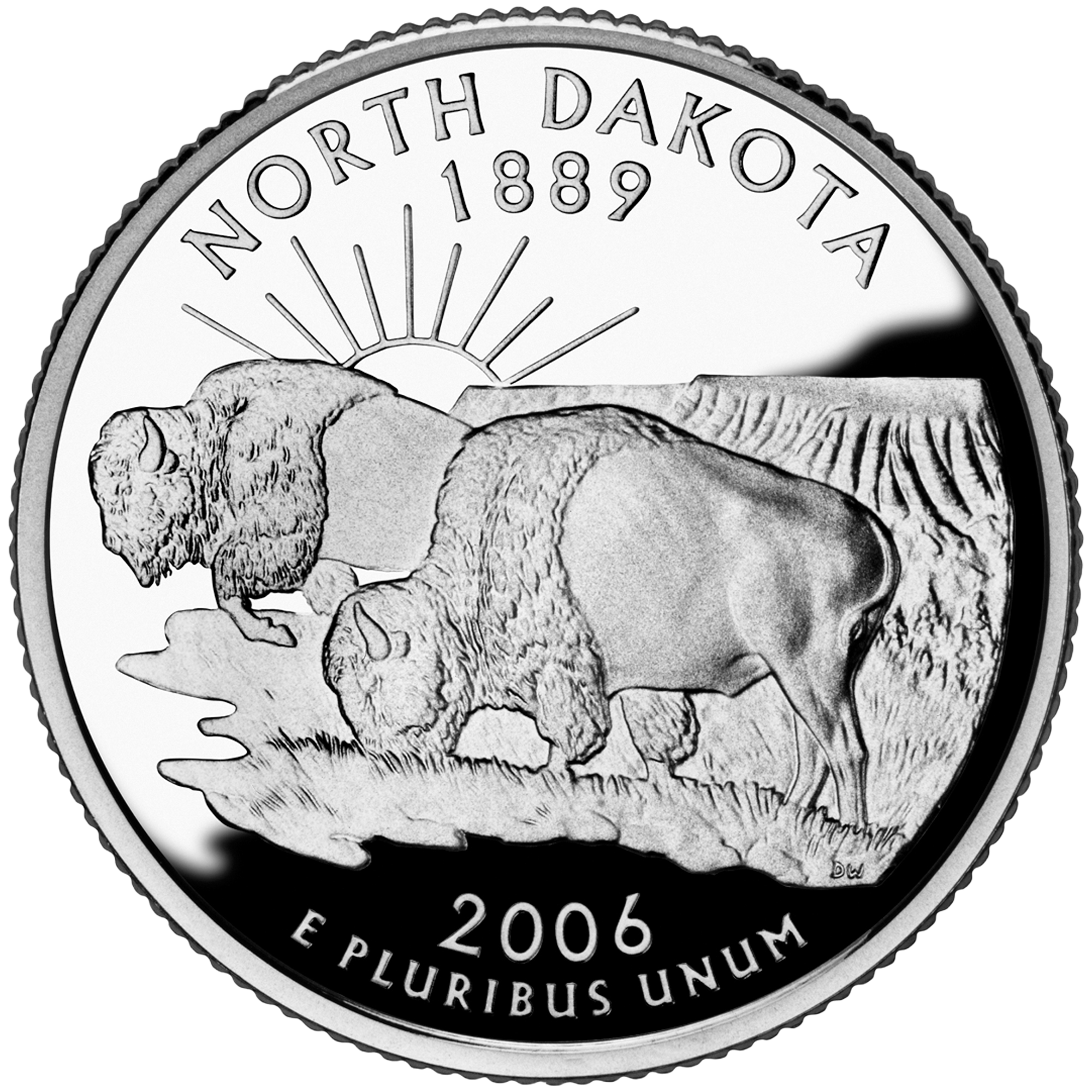 Removed background, cropped, and converted to PNG with Macromedia Fireworks. This image depicts a unit of currency issued by the United States of America. If Fraudulent use of this image is punishable under applicable counterfeiting laws. As listed by the United States Secret Service at money illustrations, the Counterfeit Detection Act of 1992, Public Law 102-550, in Section 411 of Title 31 of the Code of Federal Regulations (31 CFR 411), permits color illustrations of U.S. currency provided:1. The illustration is of a size less than three-fourths or more than one and one-half, in linear dimension, of each part of the item illustrated;2. The illustration is one-sided; and3. All negatives, plates, positives, digitized storage medium, graphic files, magnetic medium, optical storage devices, and any other thing used in the making of the illustration that contain an image of the illustration or any part thereof are destroyed and/or deleted or erased after their final use. Certain coins contain copyrights licensed to the U.S. Mint and owned by third parties or assigned to and owned by the U.S. Mint [1]. For the United States Mint circulating coin design use policy, see [2]; for the policy on the 50 State Quarters, see [3]. Also: COM:ART #Photograph of an old coin found on the Internet